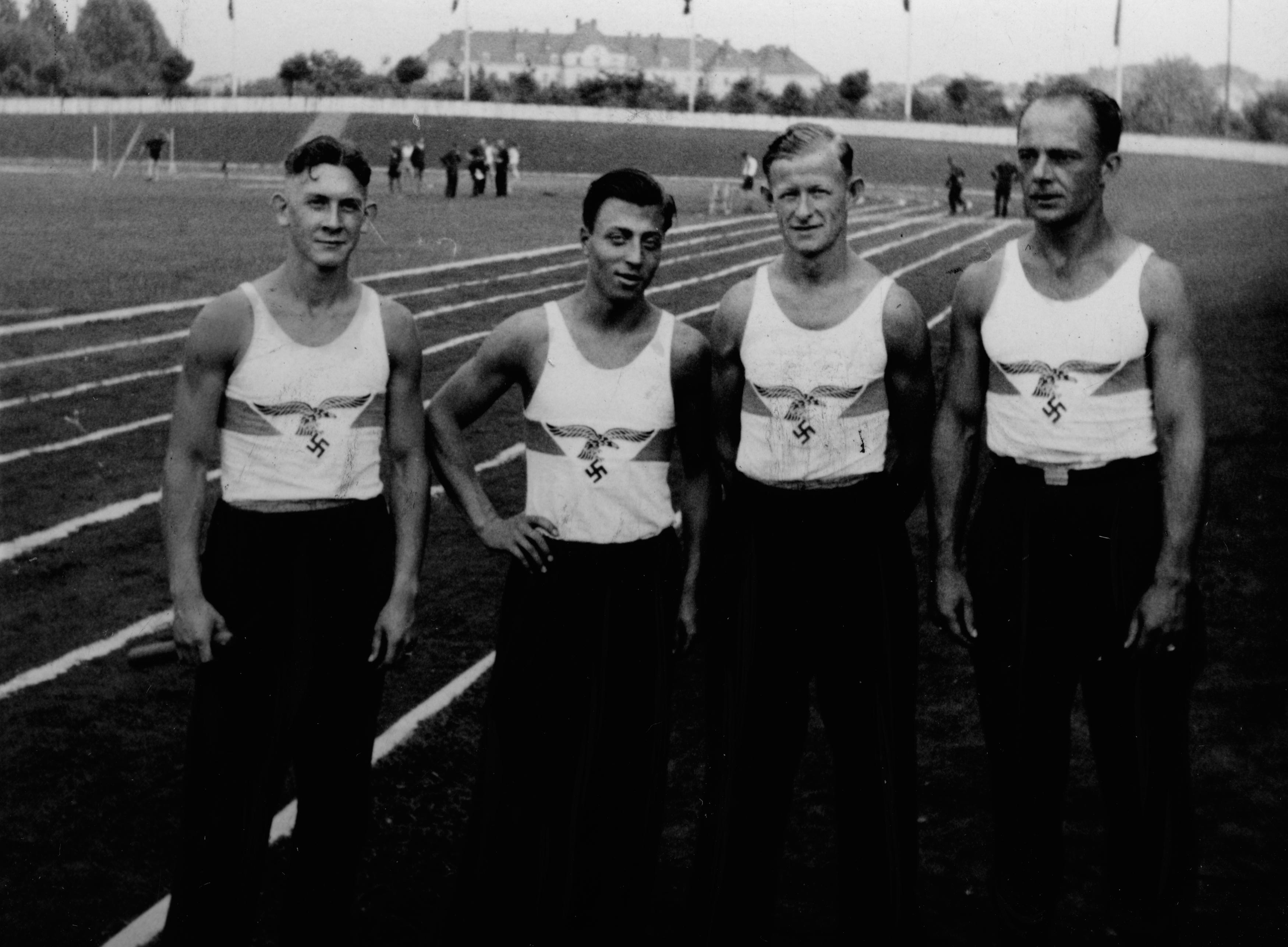 see title